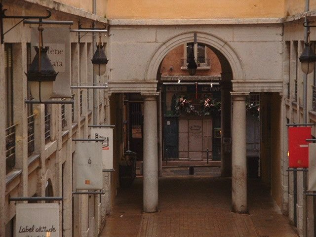 Passage Thiaffait, Lyon